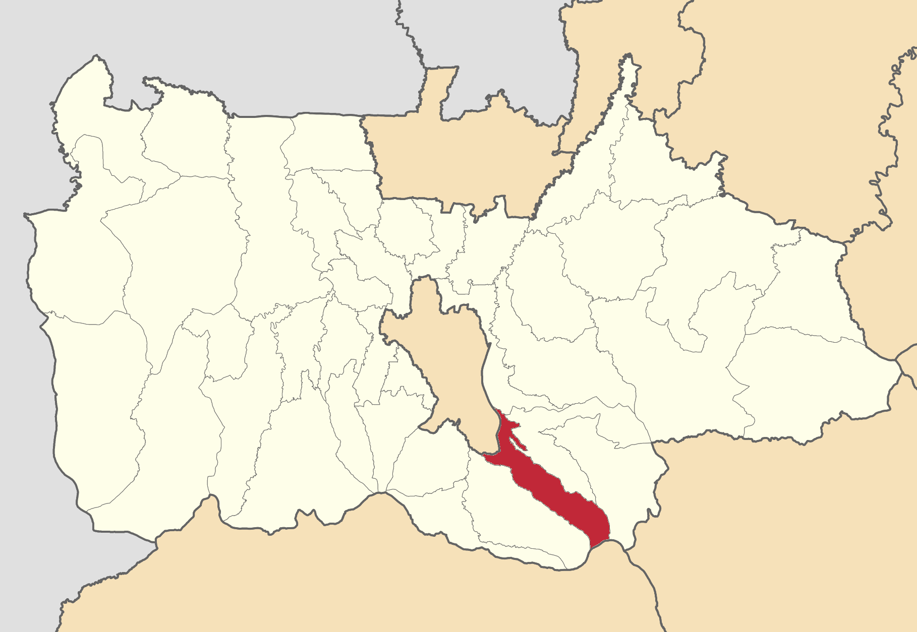 Location map showing the Ciawi district within Bogor Regency